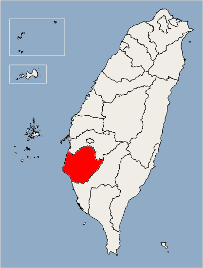 Tainan City 2010 Location Map